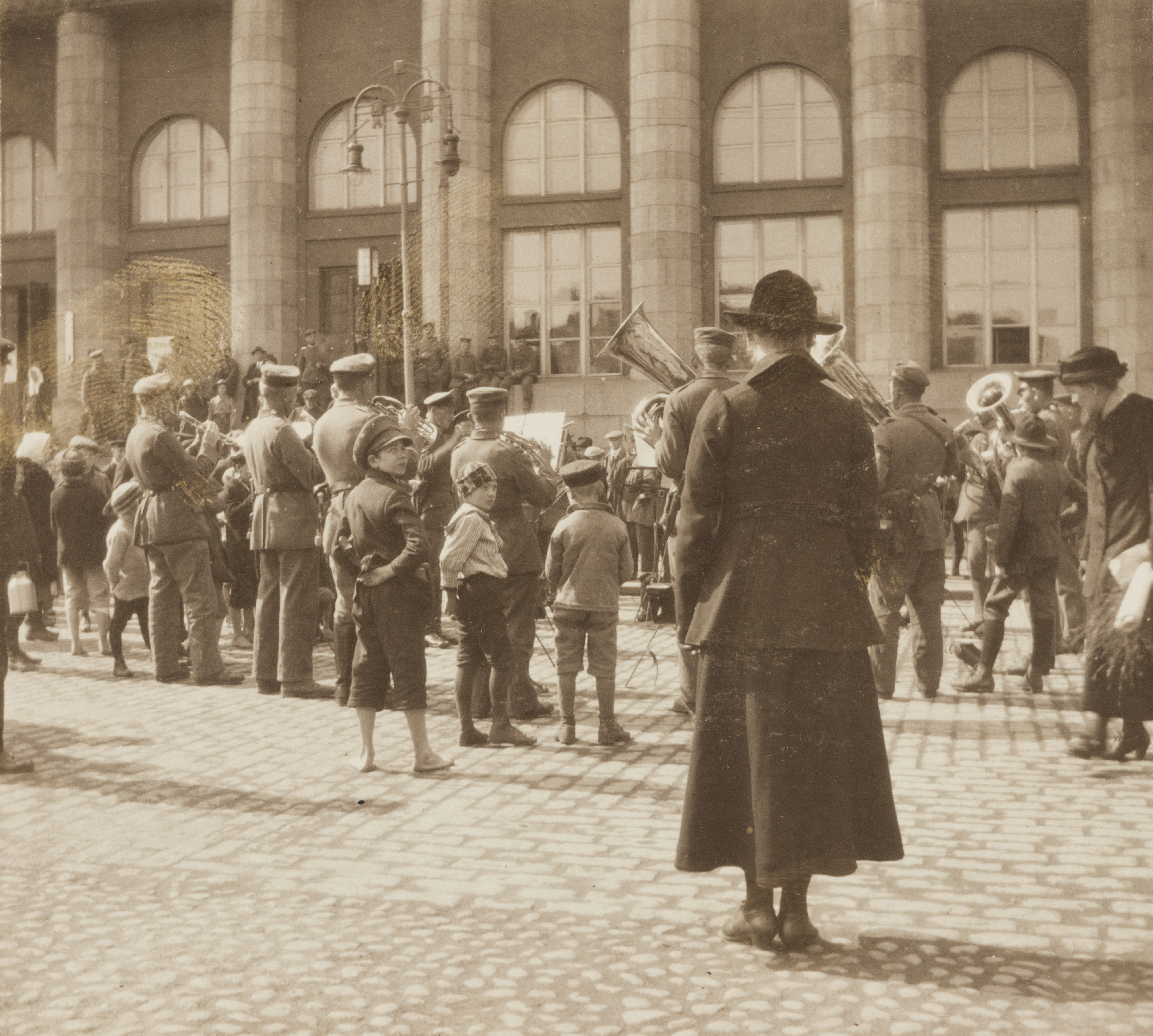 Military band of the German Baltic Sea Division playing at the Helsinki Railway Square.